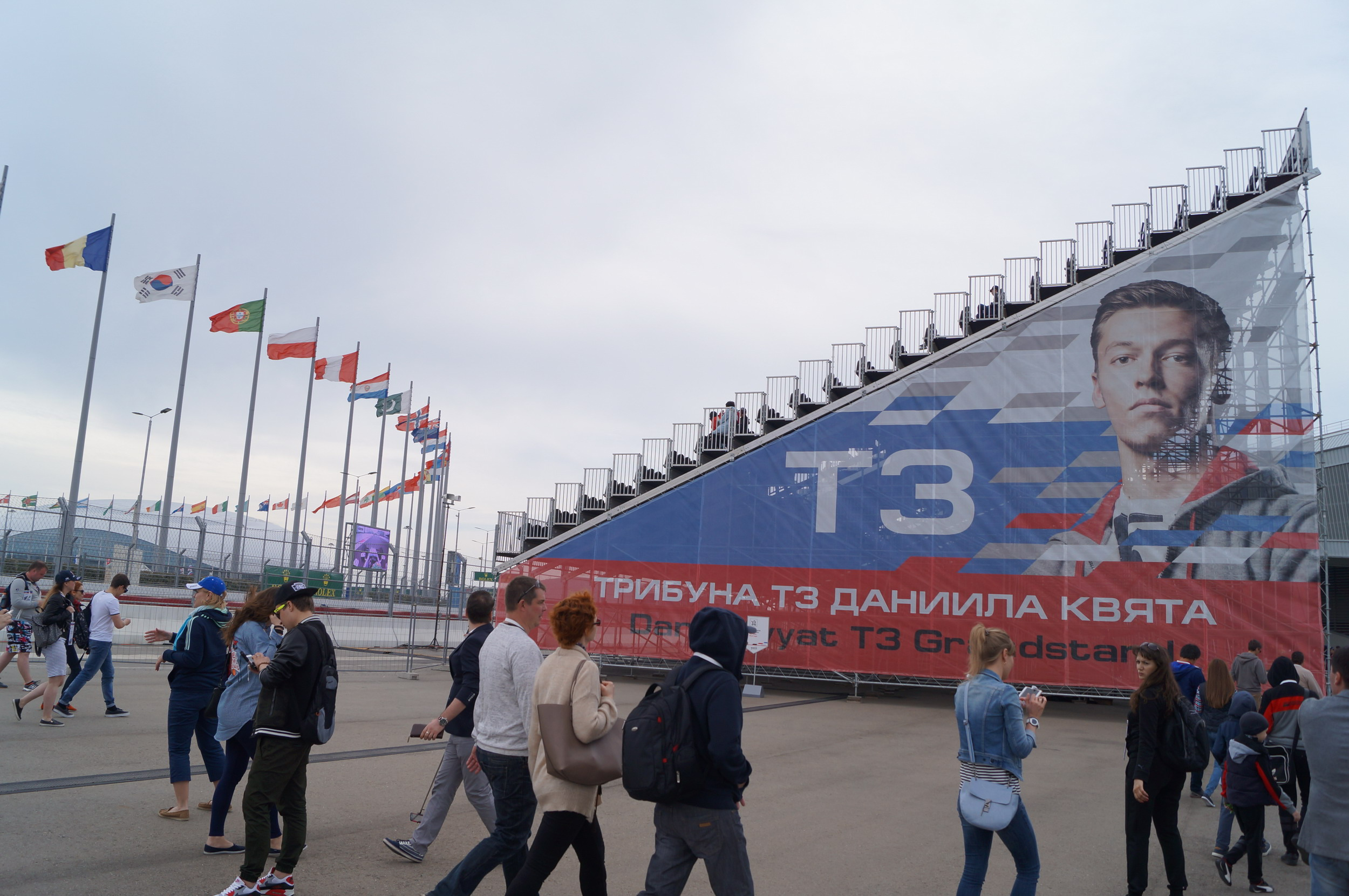 Kvyat T3 Sochi Autodrom